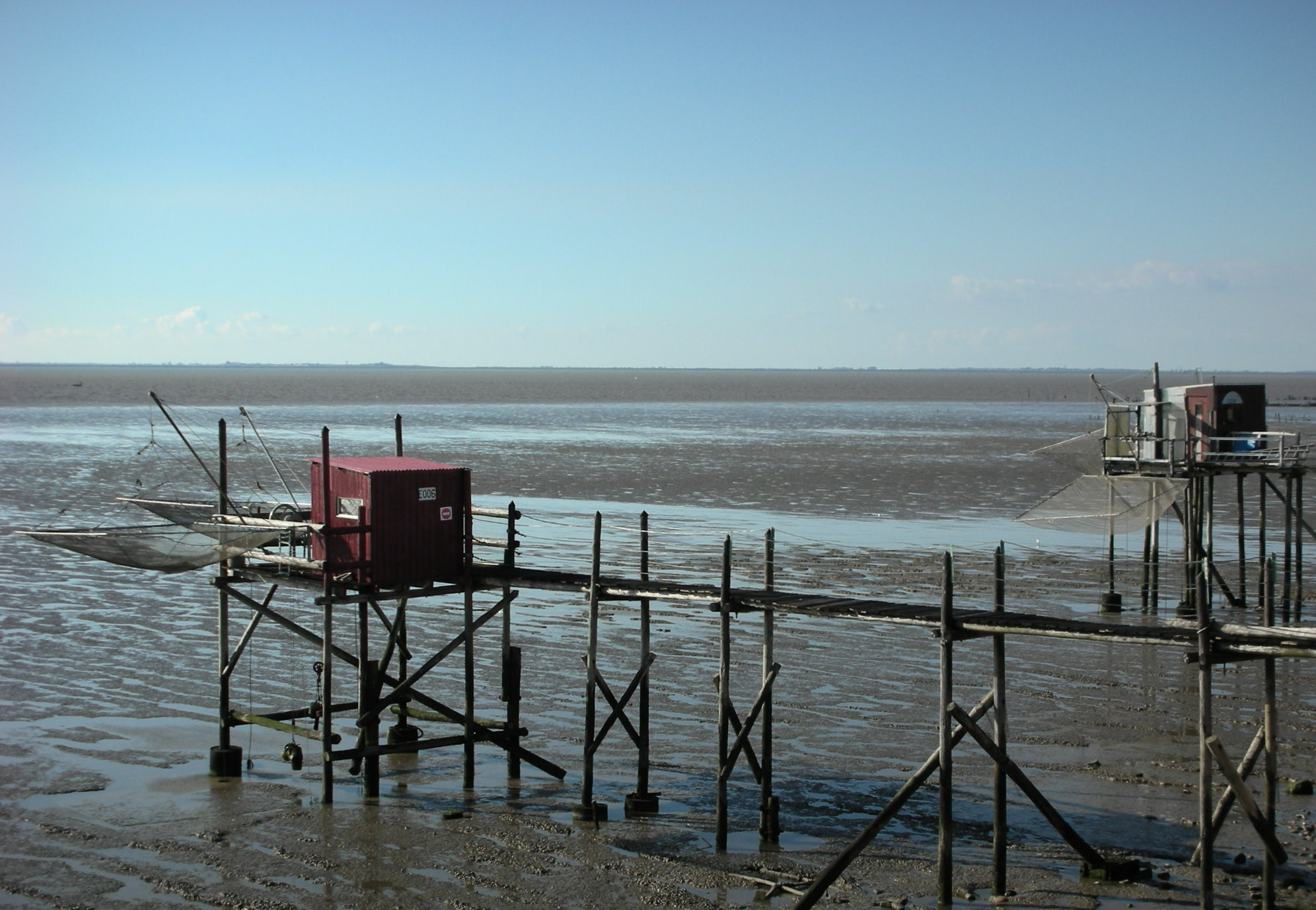 Fisherman houses of "carrelet" type near Esnandes (17, France)